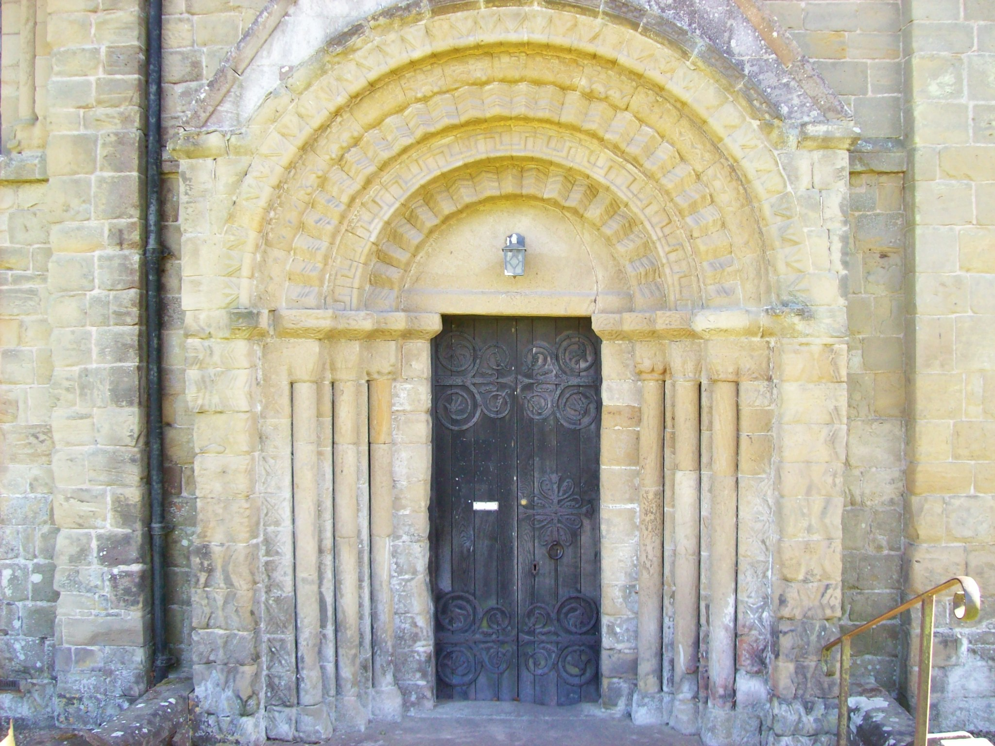 Norman north doorway of the parish church of SS Peter and Paul, Rock, Worcestershire, with carving of the Herefordshire school